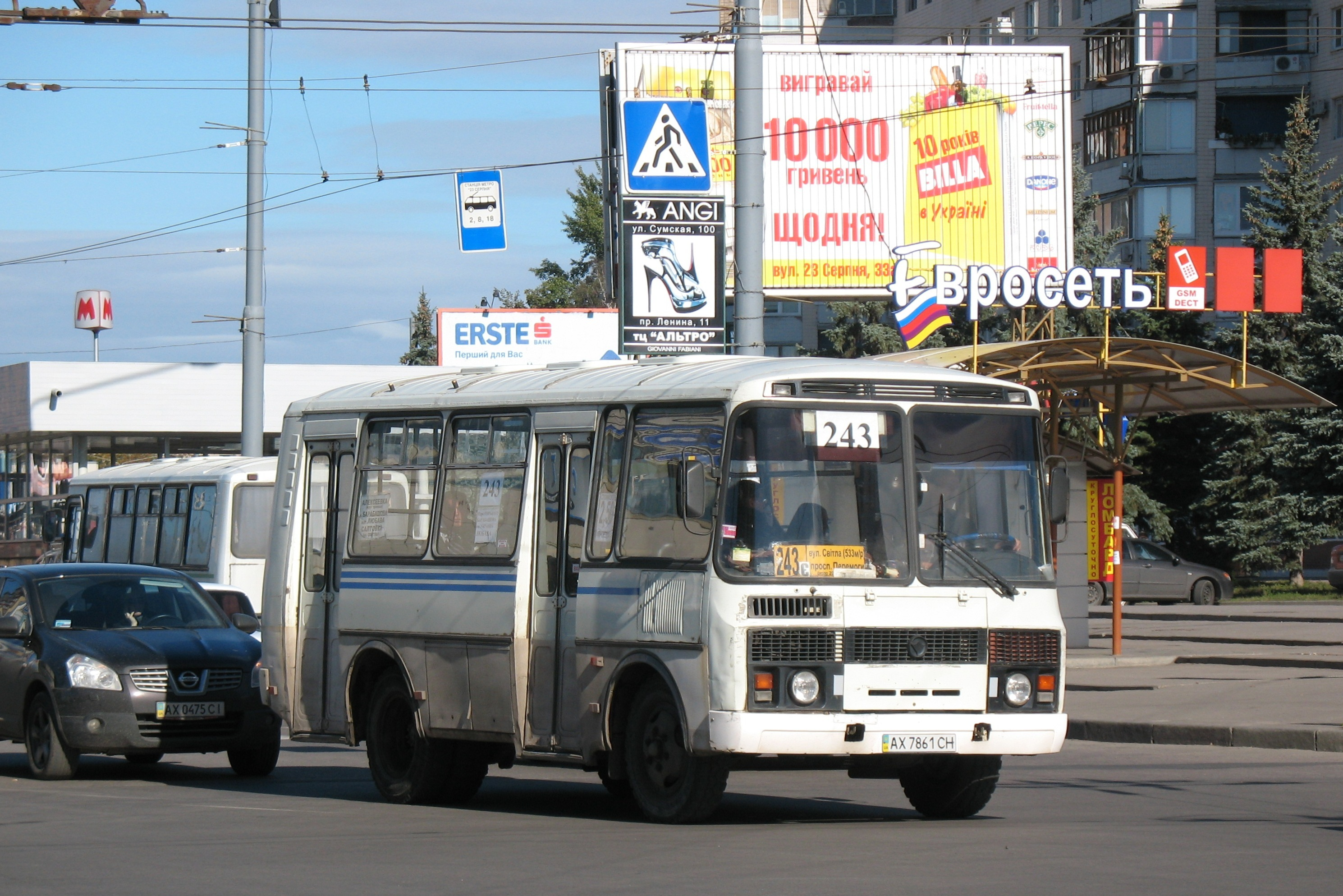 Kharkov City. Kharkov bus PAZ-32054 #243.